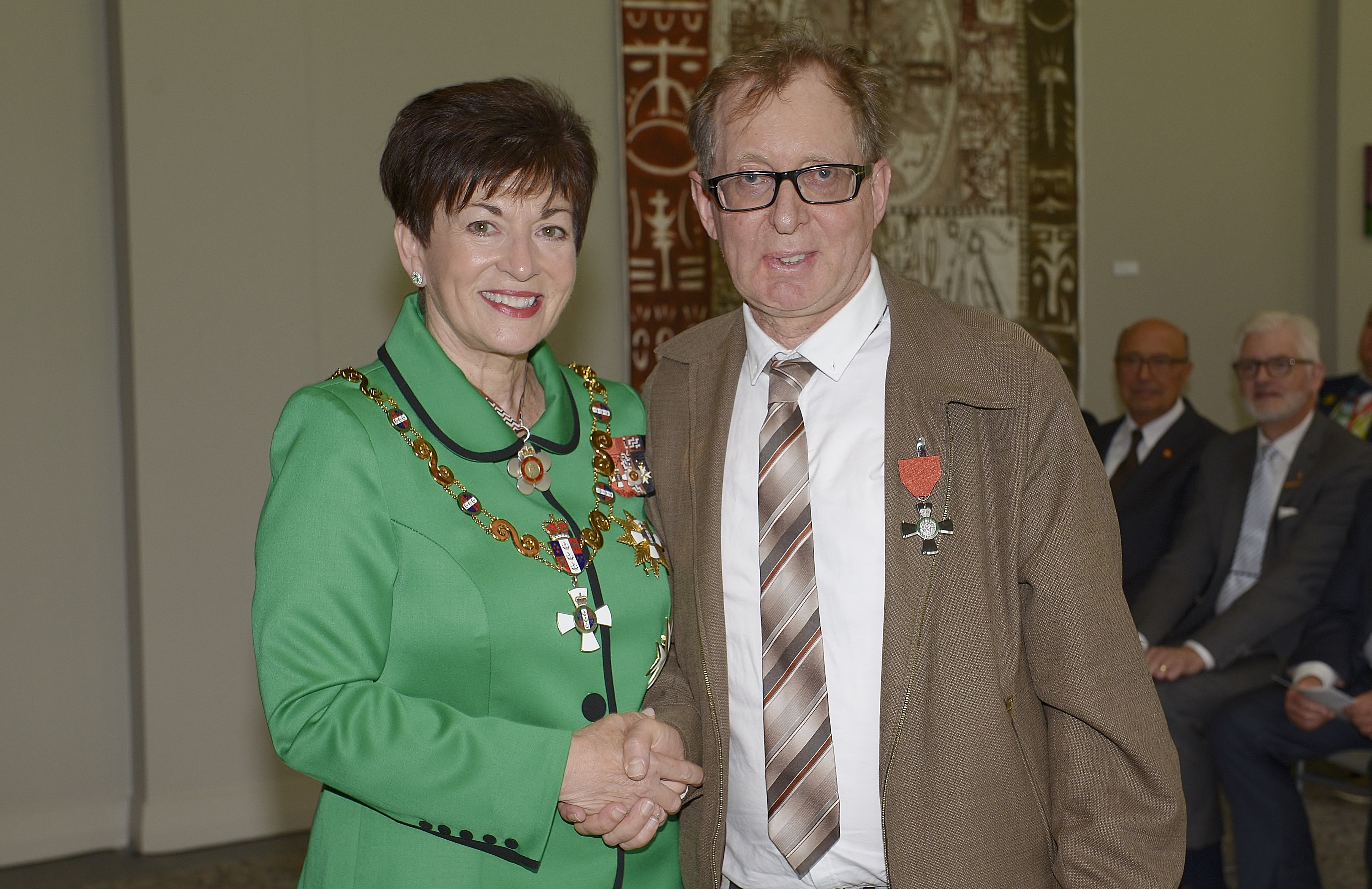 Murray Chandler, after his investiture as MNZM, for services to chess, by the governor-general, Dame Patsy Reddy, on 1 May 2018